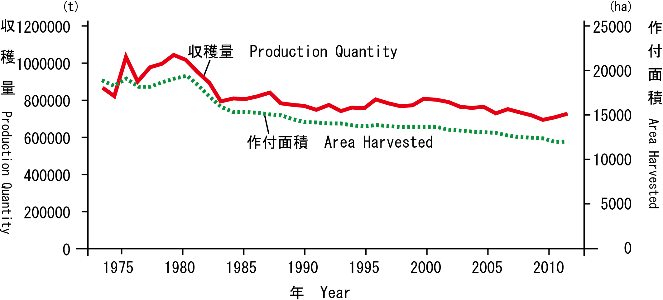 These graphs show production quantity and area harvested of tomatoes in Japan from 1973 to 2012. Data source is e-Stat, powered by Statistics Bureau, Ministry of Internal Affairs and Communications, Japan.